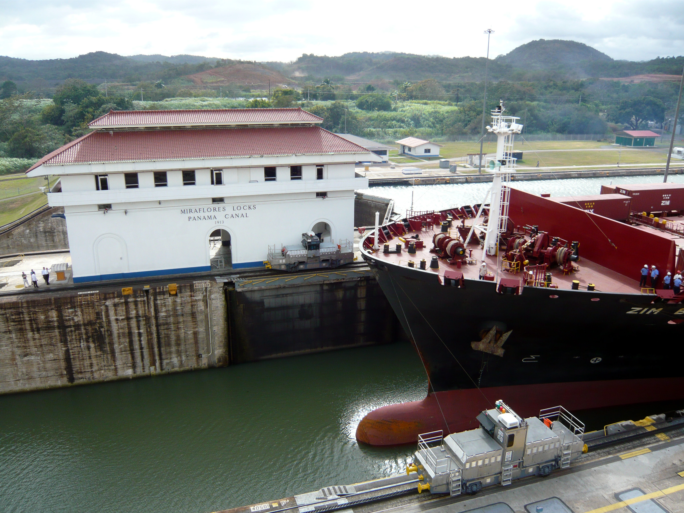 Ship navigating through the Miraflores Locks in the Panama Canal